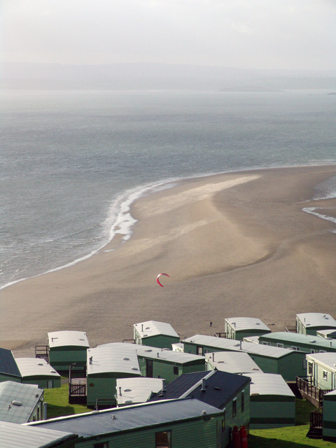 Burntisland Sands: The Sands from the top of Pettycur Bay Holiday Centre. This beach is also known as Pettycur Beach to differentiate it from Burntisland Beach.